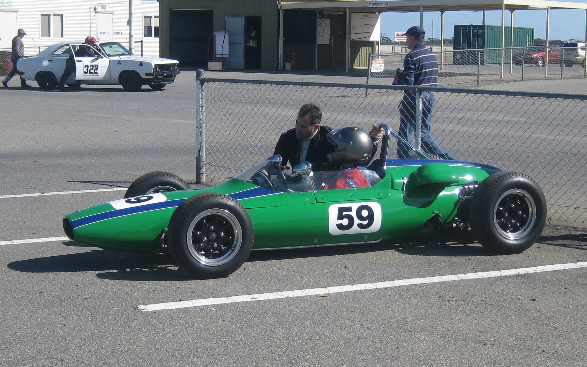 The 1962 Cooper T59 FJ of Michael Shearer. The car, built for Formula Junior racing, is pictured at Mallala Motor Sport Park in 2014.